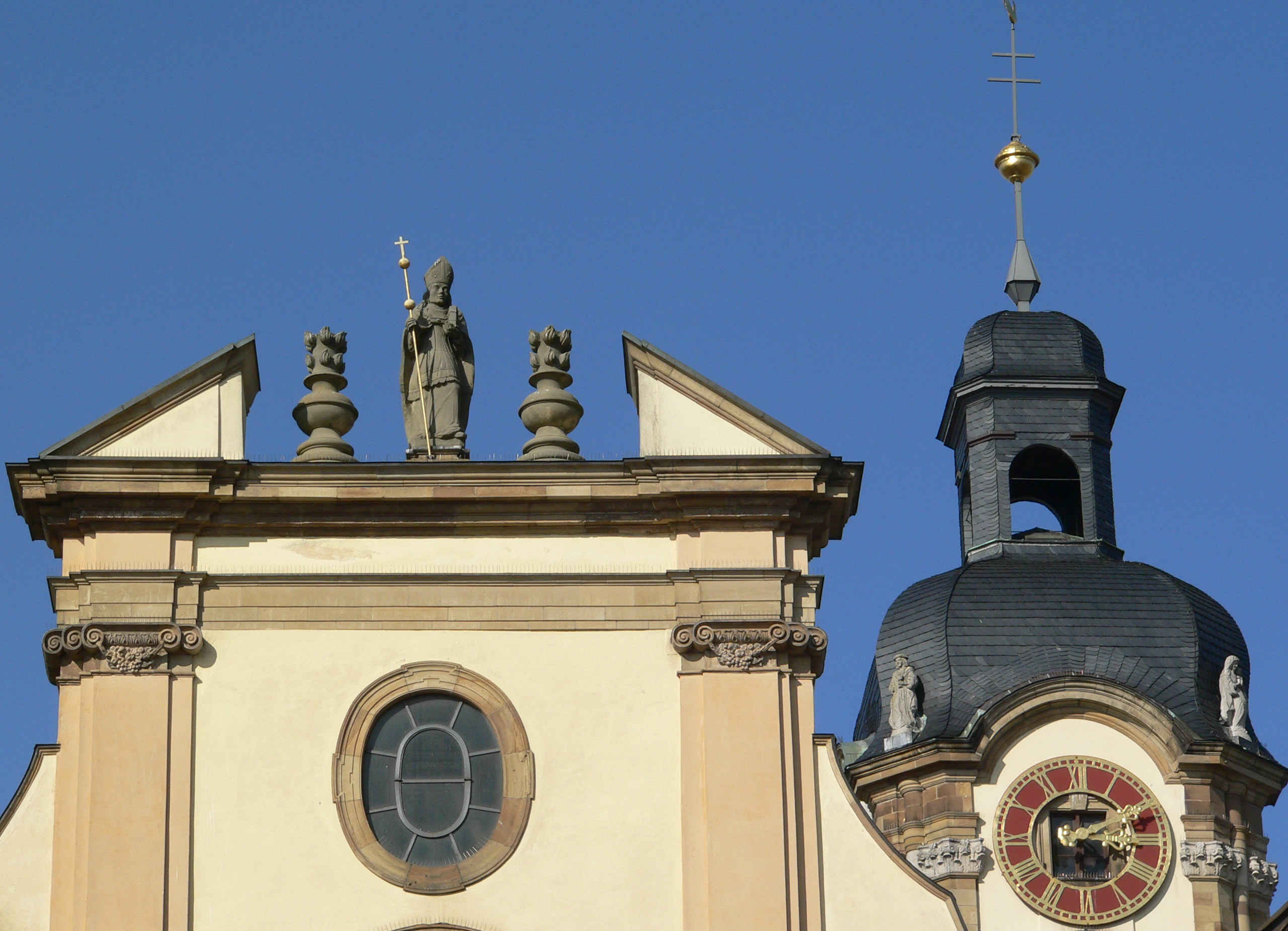 Gable and Spire of the Church "St. Dionysius" of Neckarsulm, view from South